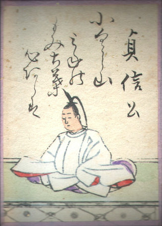 A portrait of Teishin Ko; illustration from an uta-garuta playing card for Hyakunin Isshu, created in the Edo period.